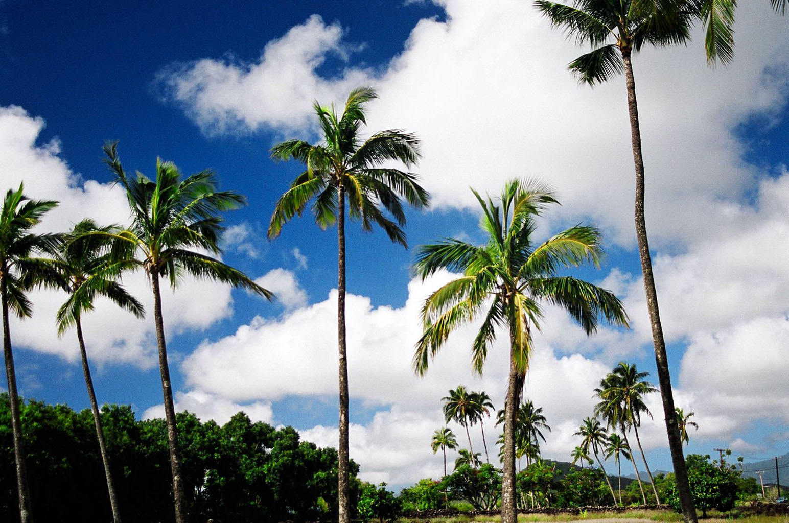 Coconut trees along the Wailua River of Kauai, Hawaii, 2012